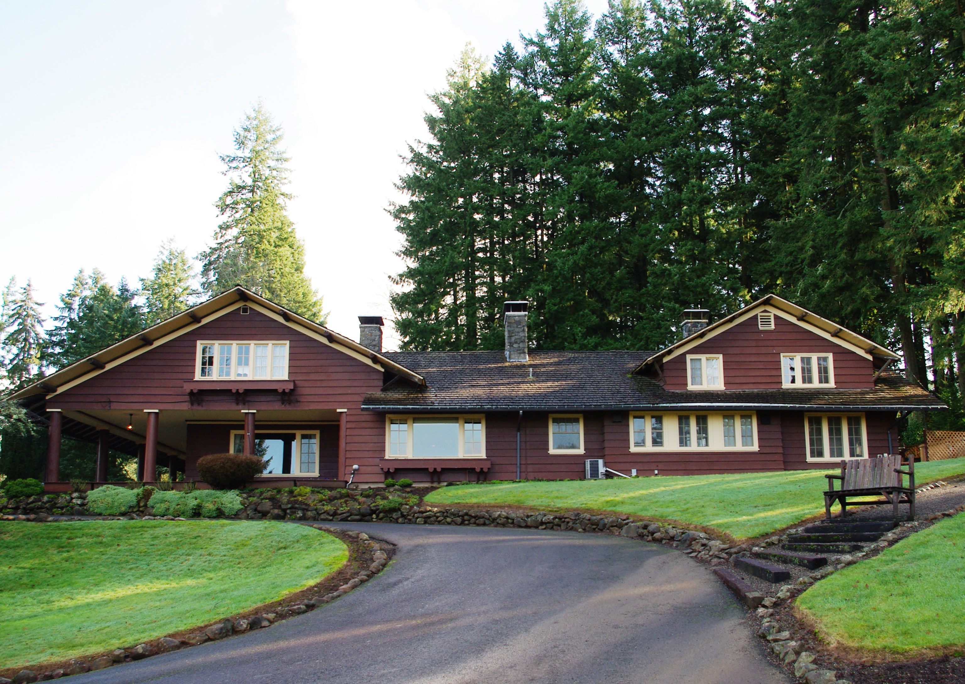 Main home at the Jenkins Estate in Aloha, Oregon.